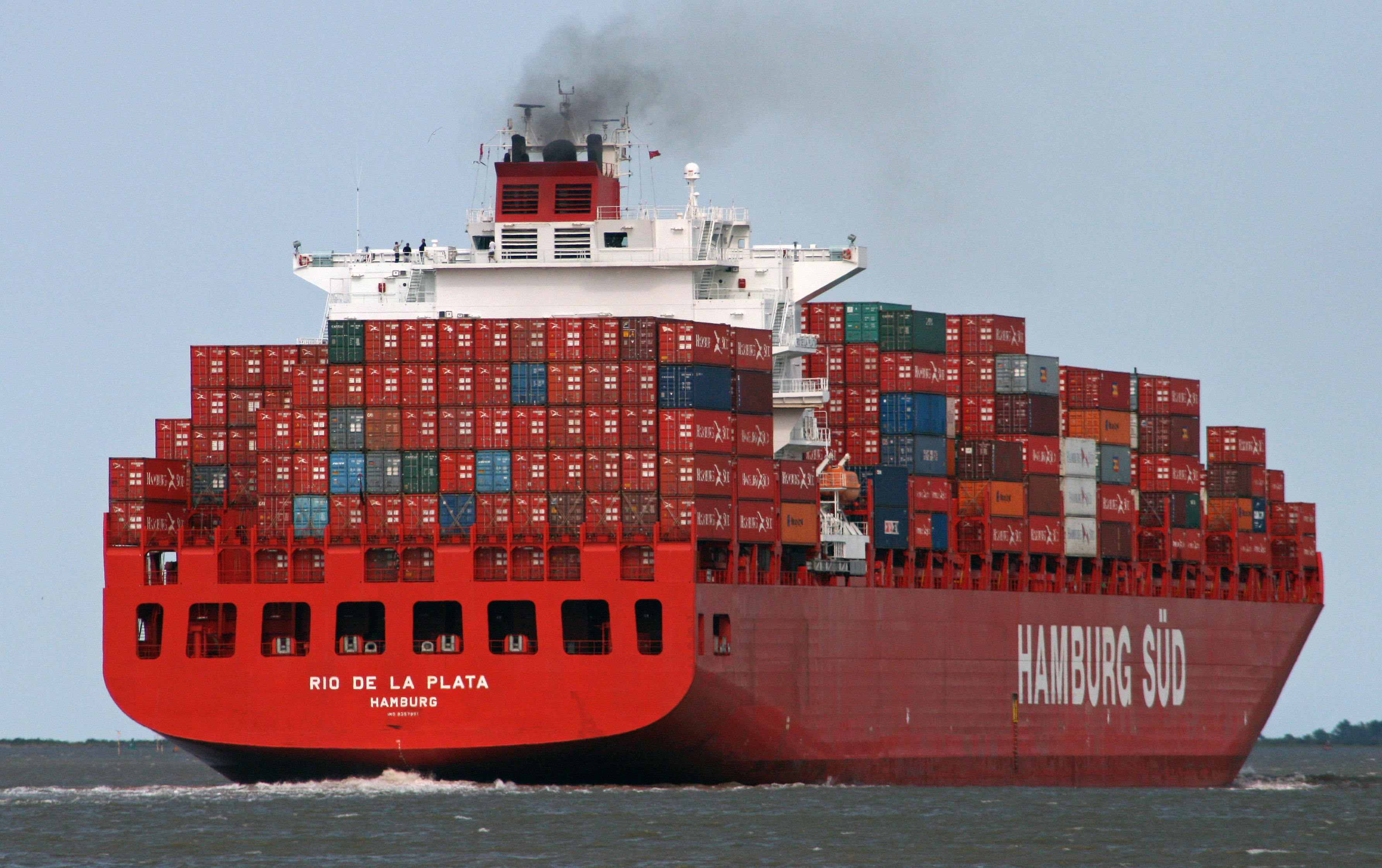 The German container ship "Rio de la Plate" operated by Hamburg Sued outward bound on the River Thames at Gravesend.